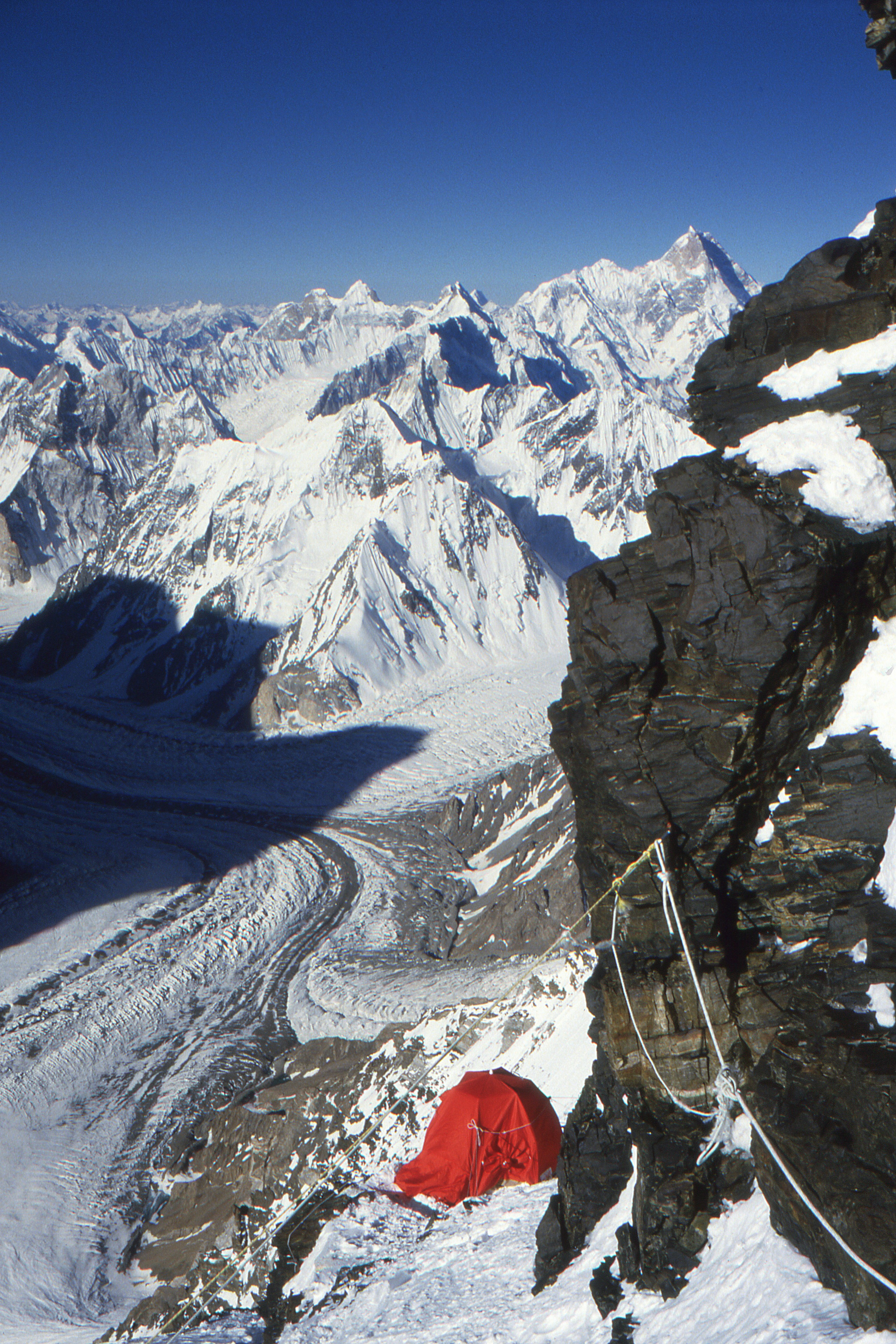 Camp 2 on the Abruzzi ridge of K2. Masherbrum (on the right), Biarchedi (center) and Ghandogoro Ri (center left) against the skyline - these mountains lay south of the Baltoro glacier. Marble Peak is on the far left (the dark rocky walls). The shadows of the three Broad Peak summits (main, central, north - from left to right) are cast on Godwin-Austen glacier and on the slopes of Pastore Peak respectively